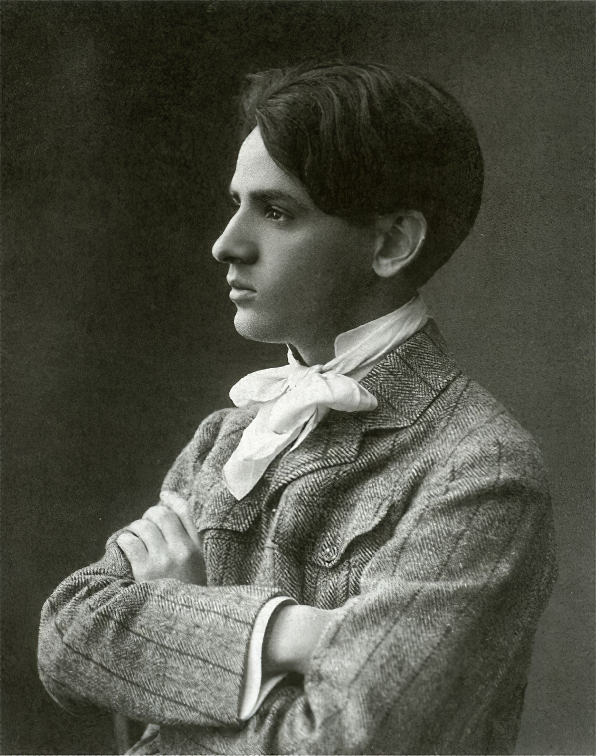 Sergey Auslender (1886—1943)